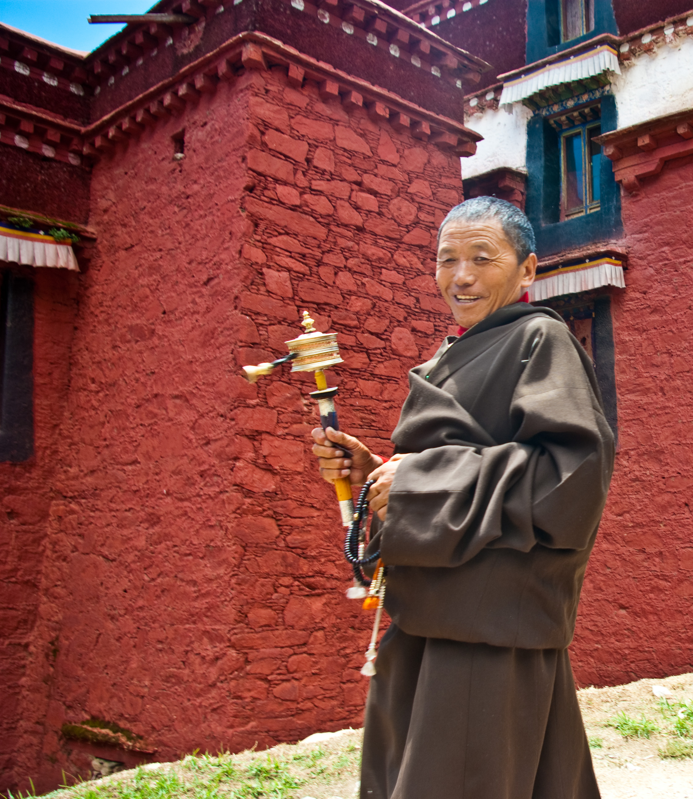 Nechung